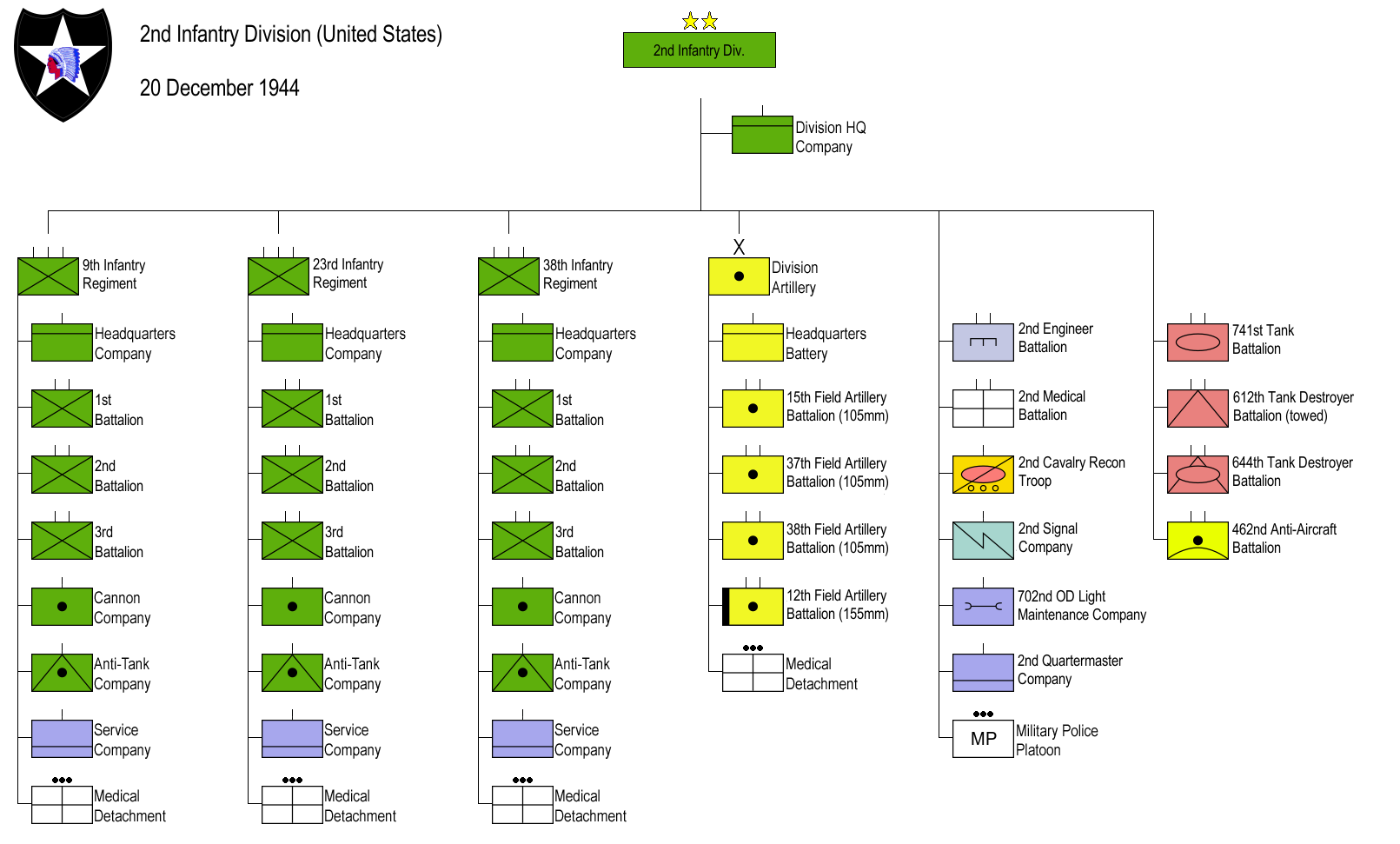 US Army 2nd Infantry Division Structure, World War II (20 December 1944)